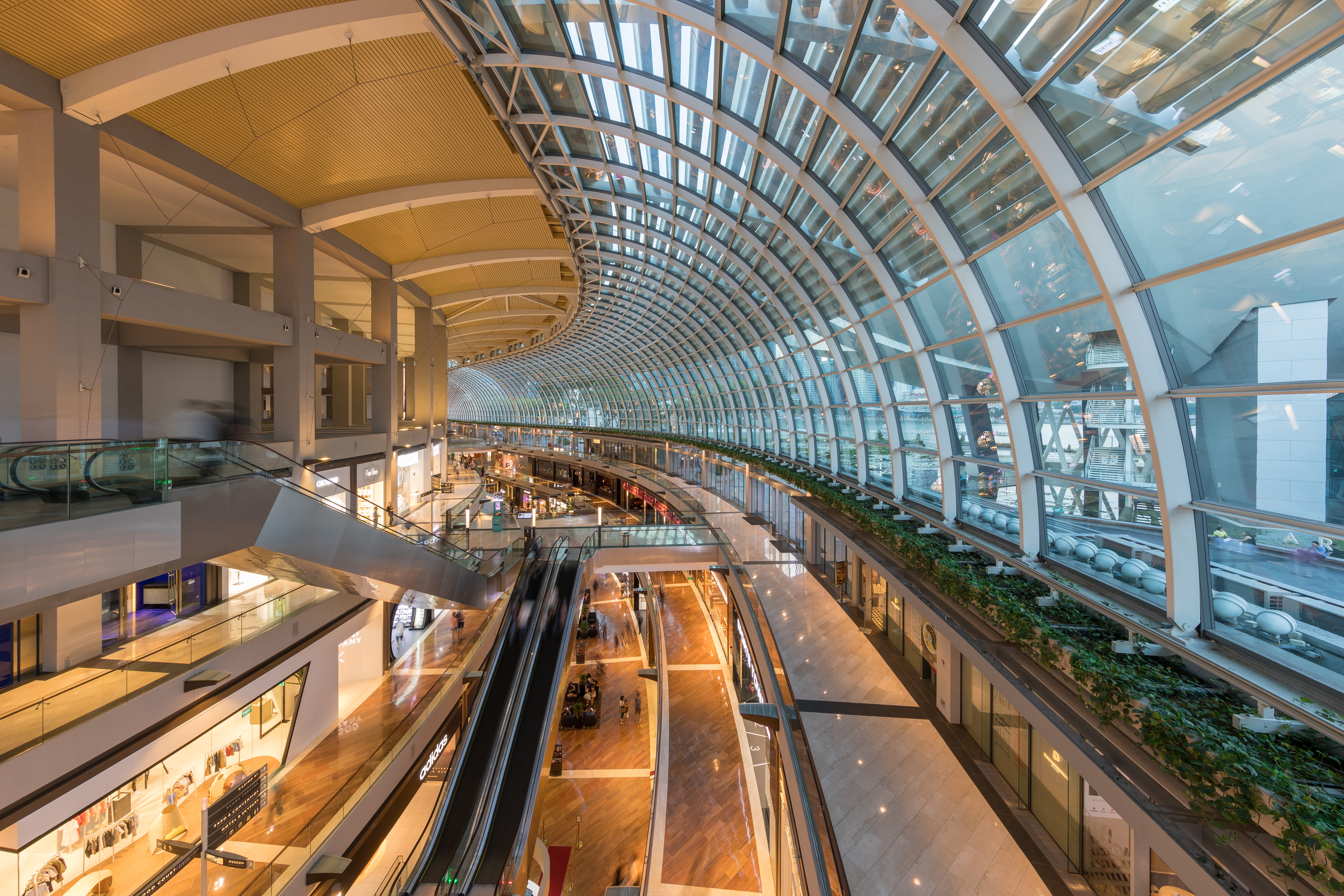 Large view on the interior of the mall The Shoppes at Marina Bay Sands in Singapore. Illuminated corridors, escalator and transparent glass vaulted roof